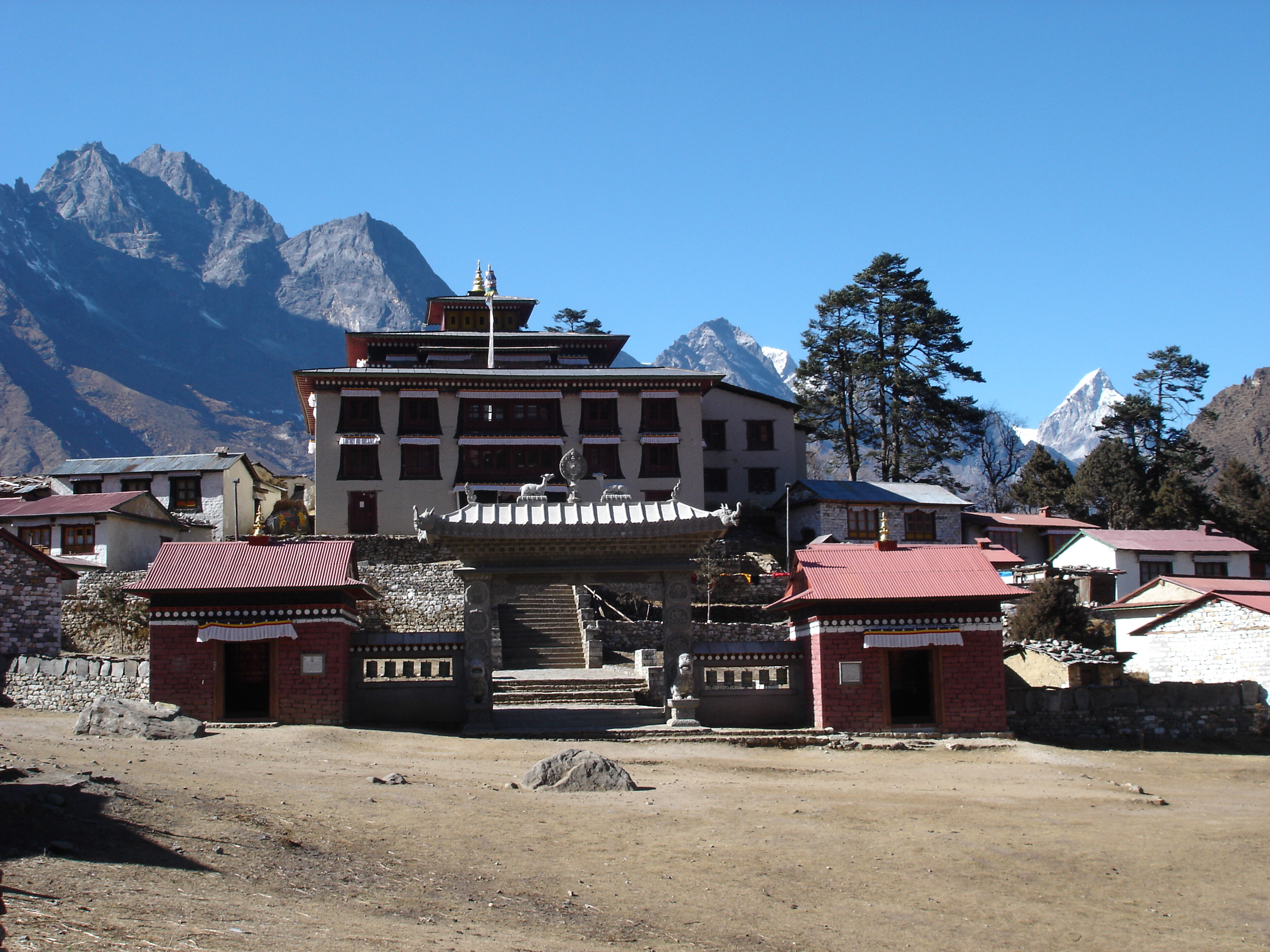 Tengboche Buddhist monastery, Nepal